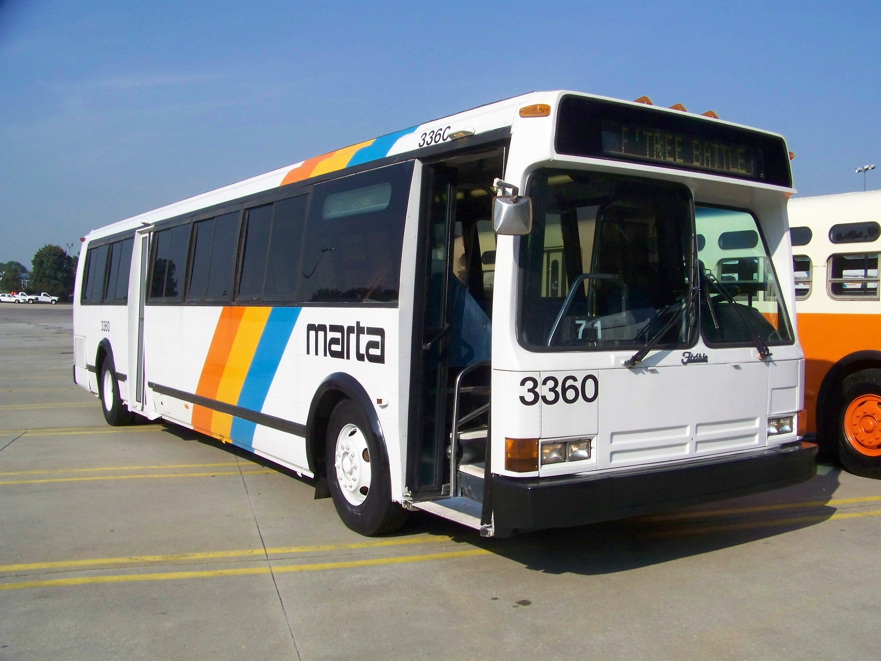 Bus 3360 of the Metropolitan Atlanta Rapid Transit Authority (MARTA), a preserved 1988 Flxible Metro bus, at a MARTA garage in 2014